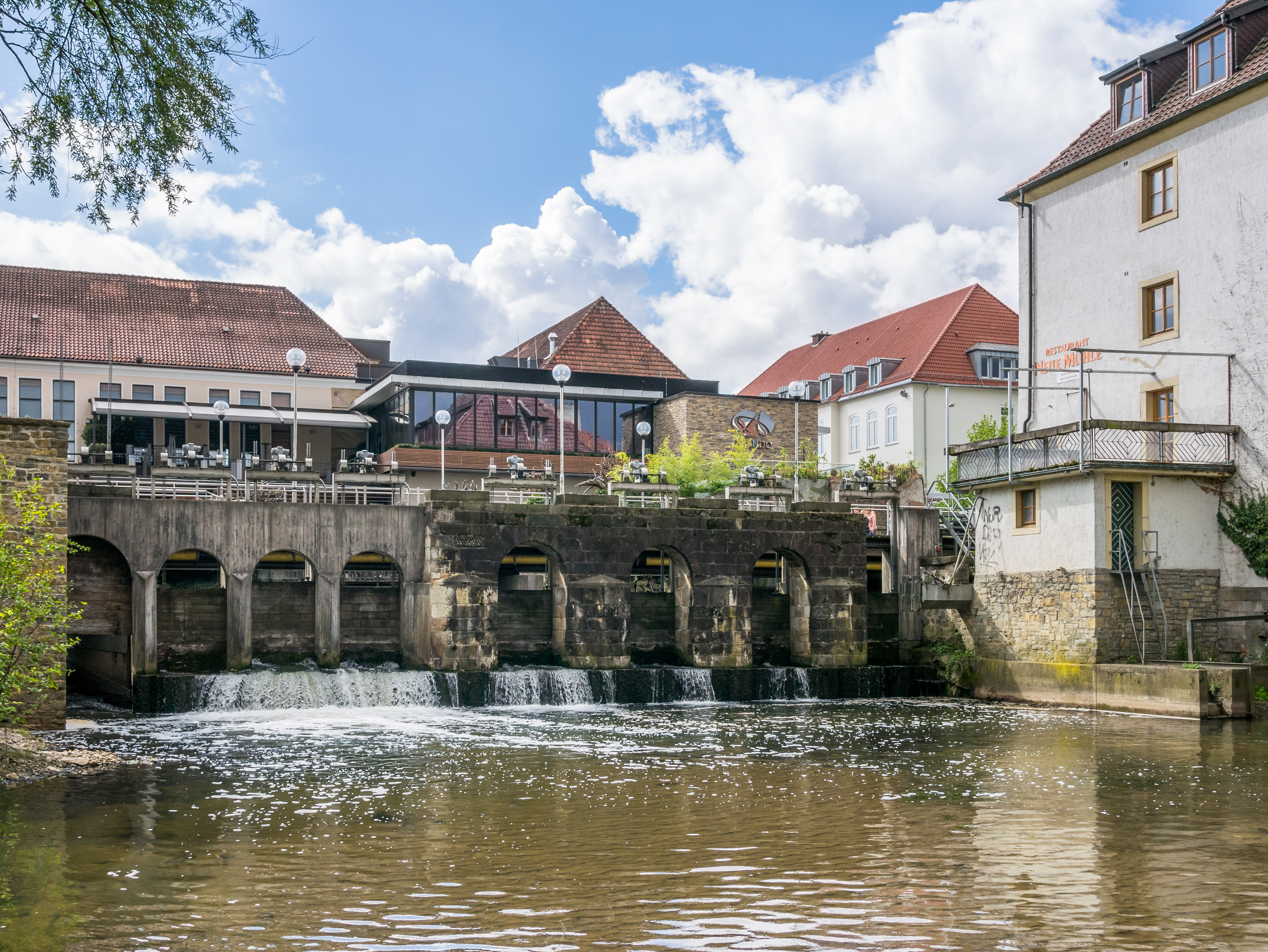 Weir at the Haseuferweg trail in Osnabrück, Lower Saxony, Germany